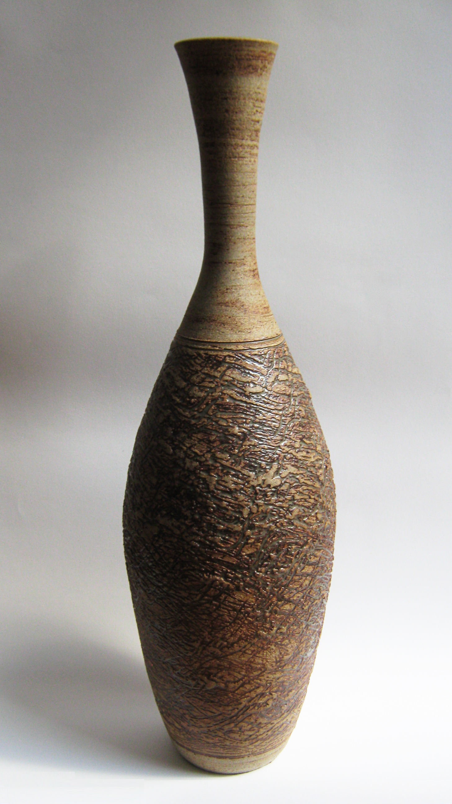 Tall stoneware vase by Ian Sprague 1970s; photographed in St Kilda Victoria